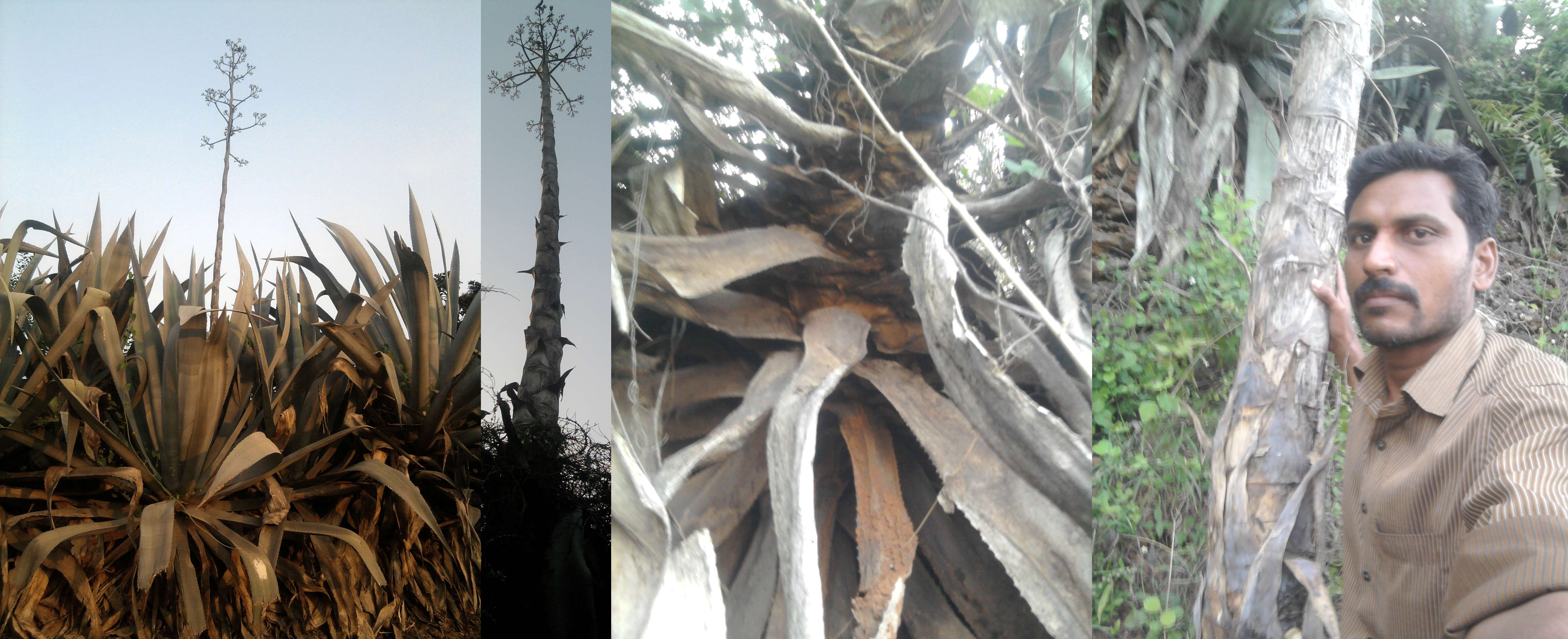 Aloe vera flowers at Polamgari palli, Nellore district, A.P. India.